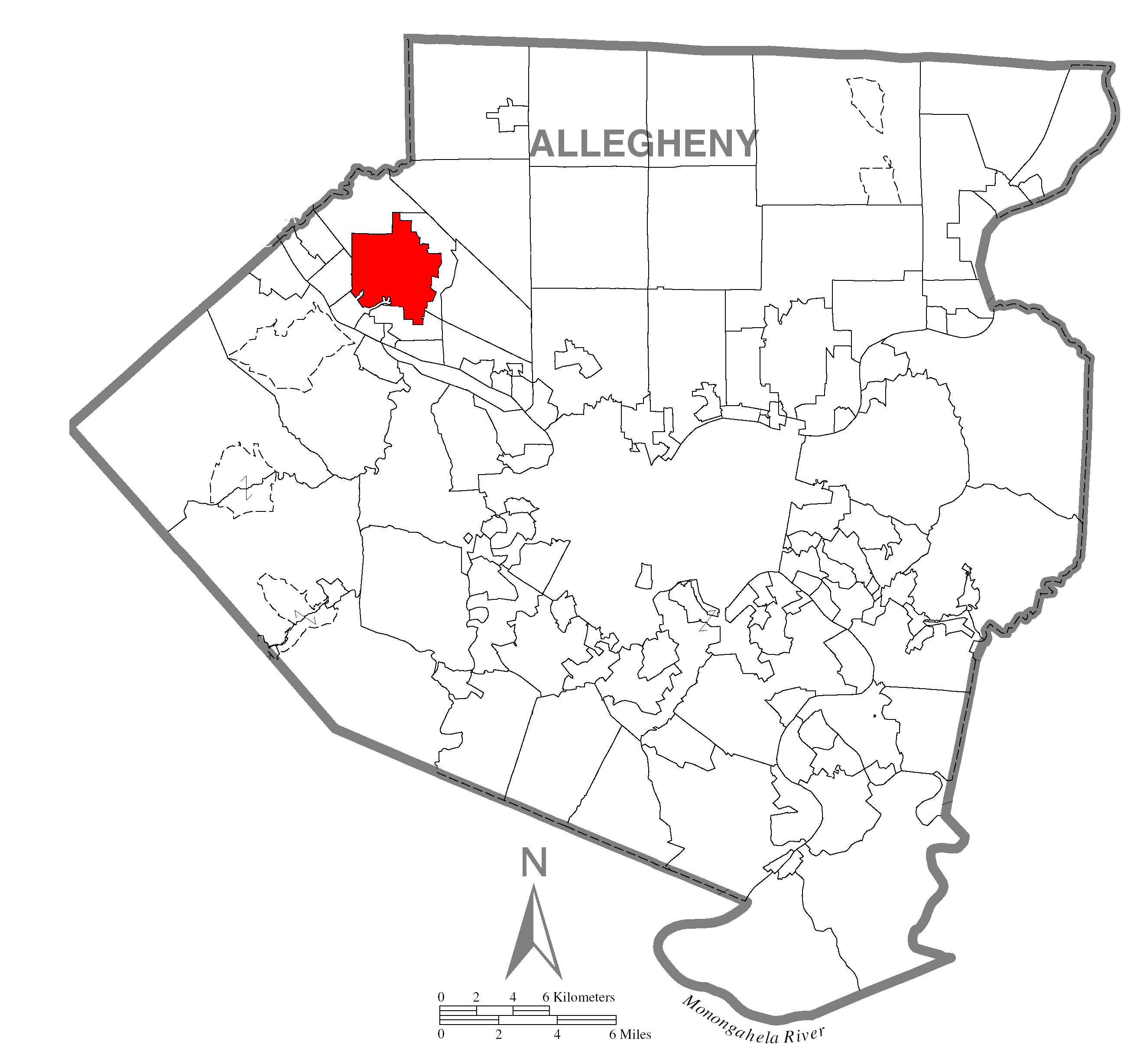 A map of Allegheny County showing Sewickley Heights, Pennsylvania (alternate) highlighted on the map.